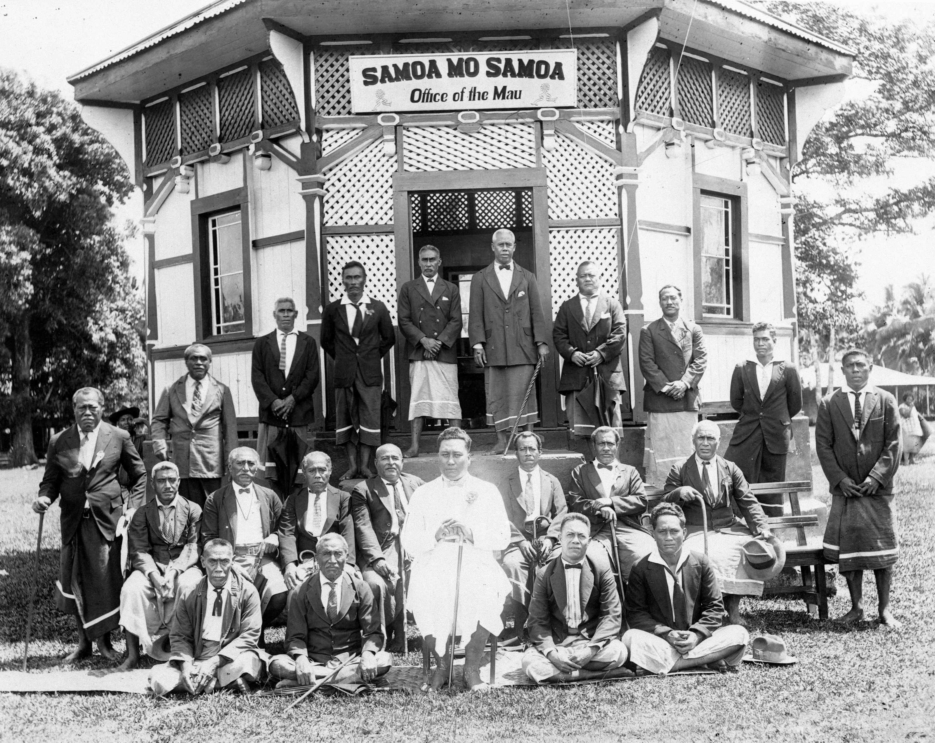 Mau leaders and paramount chief Tupua Tamasese Lealofi III in front of the ocatagonal Mau office in Vaimoso village, near Apia, Samoa, 1929. The distinctive small building includes the sign 'Samoa mo Samoa' (Samoa for Samoa), the motto of the Mau movement, a national non-violent movement for Samoa's political independence in the early 1900s. Gagana Samoa: Tupua Tamasese Lealofi III ma le Mau i luma o le ofisa a le Mau i Vaimoso, Upolu, 1929. I luma o le ofisa e tusi ai upu ia, 'Samoa mo Samoa', upu fa'amalosi o le Mau.